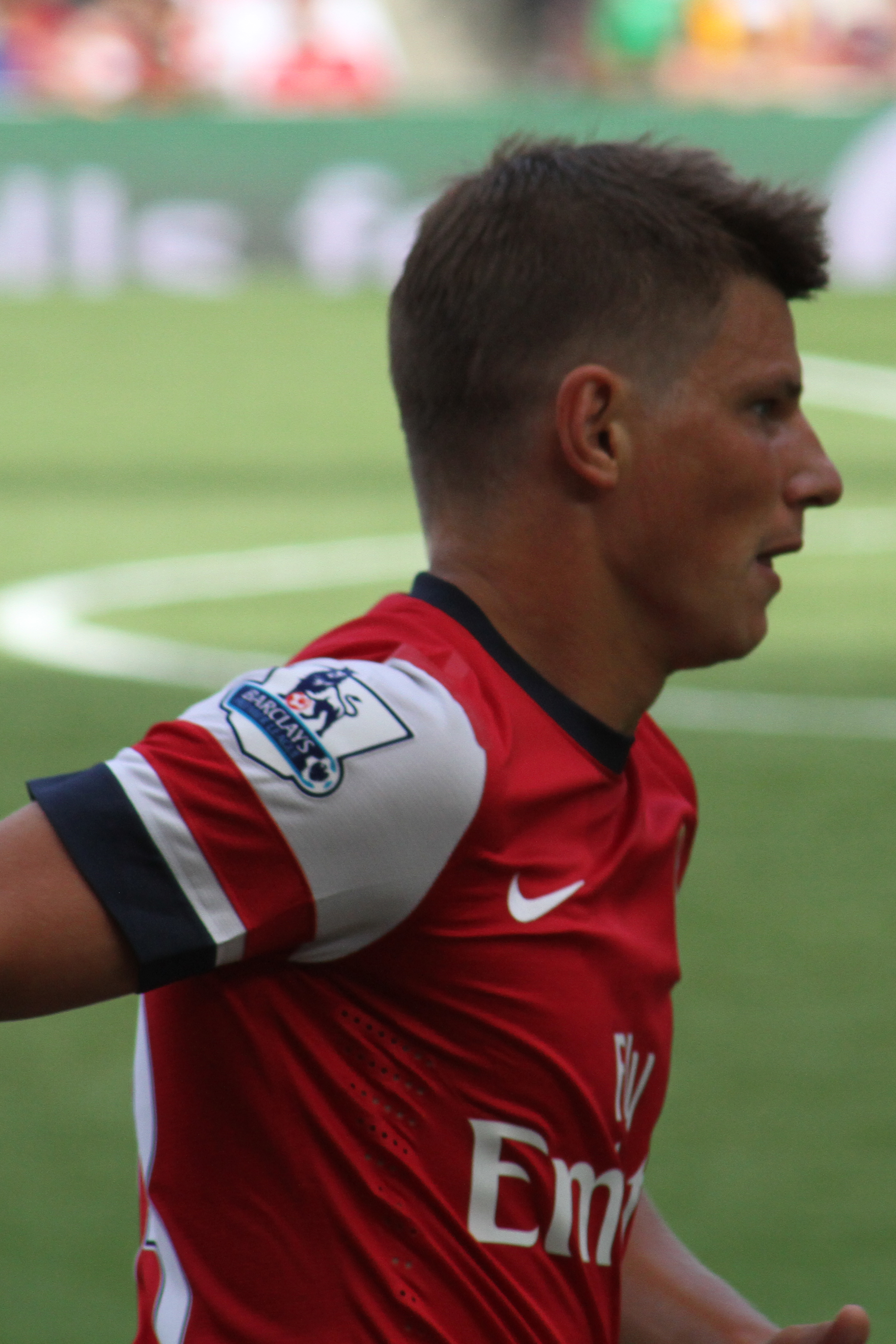 Andrey Arshavin